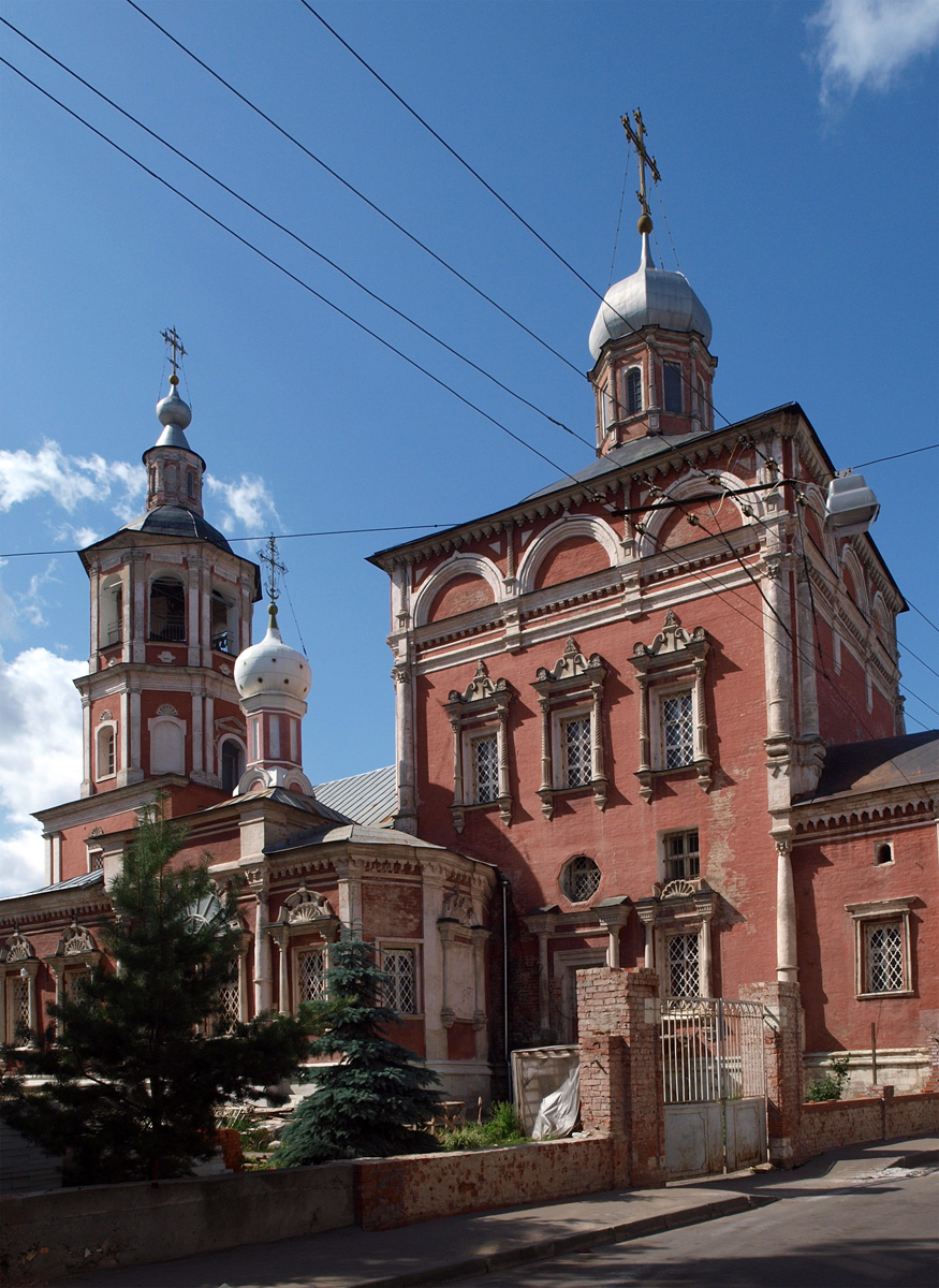 Church of the Entry of the Theotokos into the Temple in Barashi (Moscow) (from Podsosensky Lane)